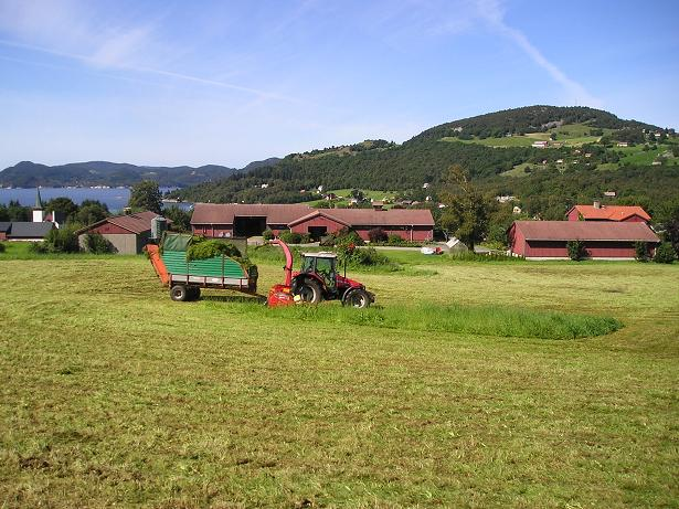 A summer picture of Vikebygd, Norway. With a view of Ålfjorden in the background. Own picture.